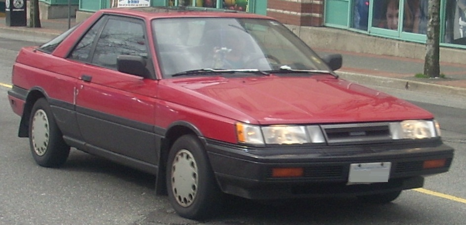 1989-1990 Nissan Sentra photographed in New Westminster, British Columbia, Canada